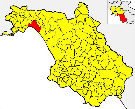 Locator map of the municipality of Salerno (red) within the Province of Salerno